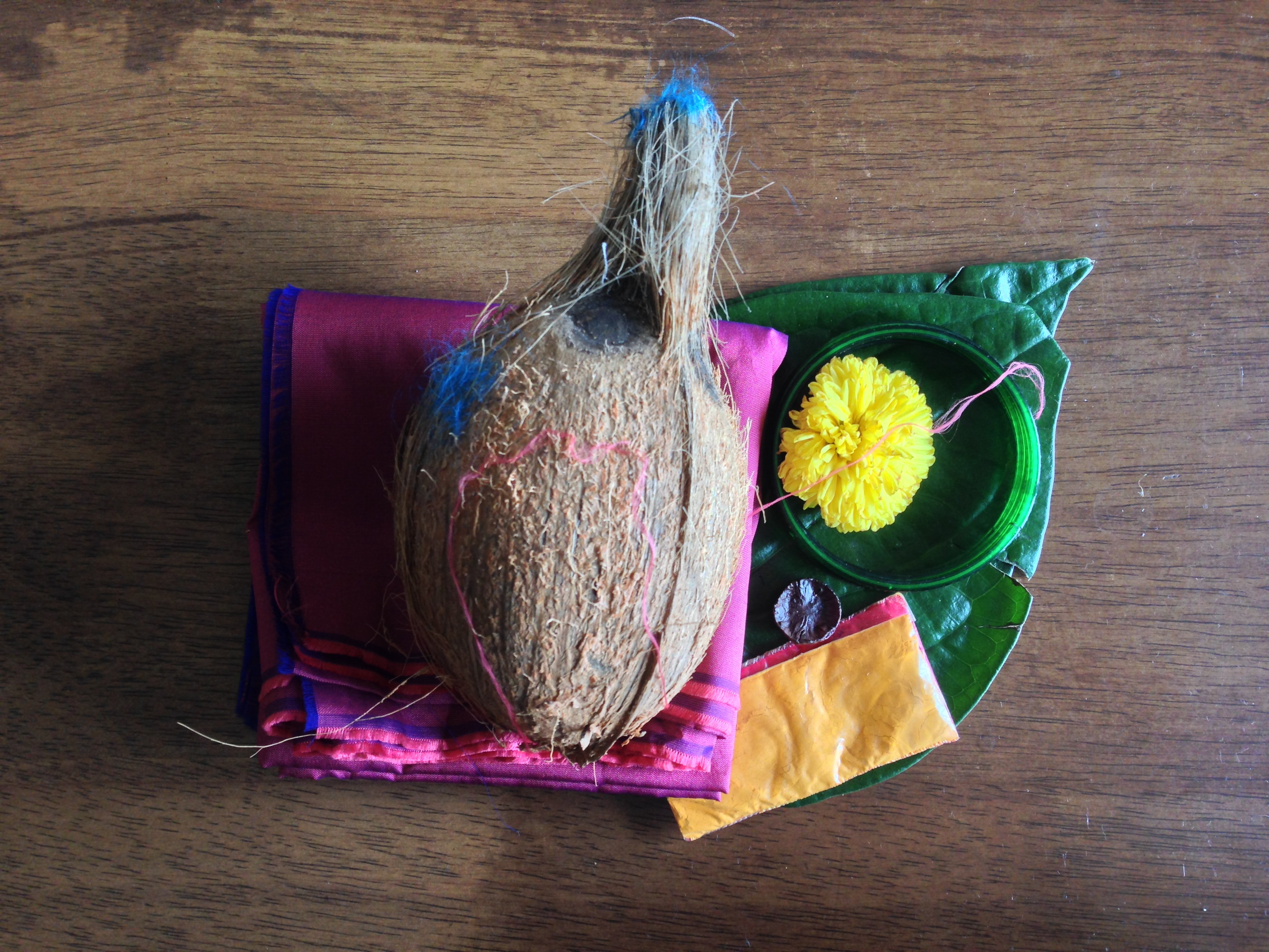 Gowri Habba On the Gowri Baagna there is placed an arashina-kumkuma, which is the name given for this set of items: a betel leaf, betel nut, flower, fruit, turmeric and vermilion, and a blouse piece. The fruit can be coconut, banana, apple or sweet lime. The flower should be chrysanthemum, jasmine or other variety of flower permitted to be worn in the hair as per protocol. A set of four glass bangles is seen. They belong inside the baagna container, but are given with this to avoid breakage.